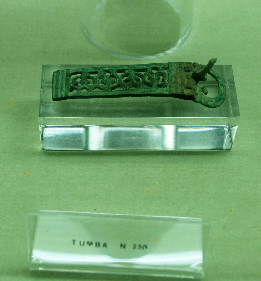 Archaeological museum of San Pedro in Saldaña (Palencia, Castile and León).